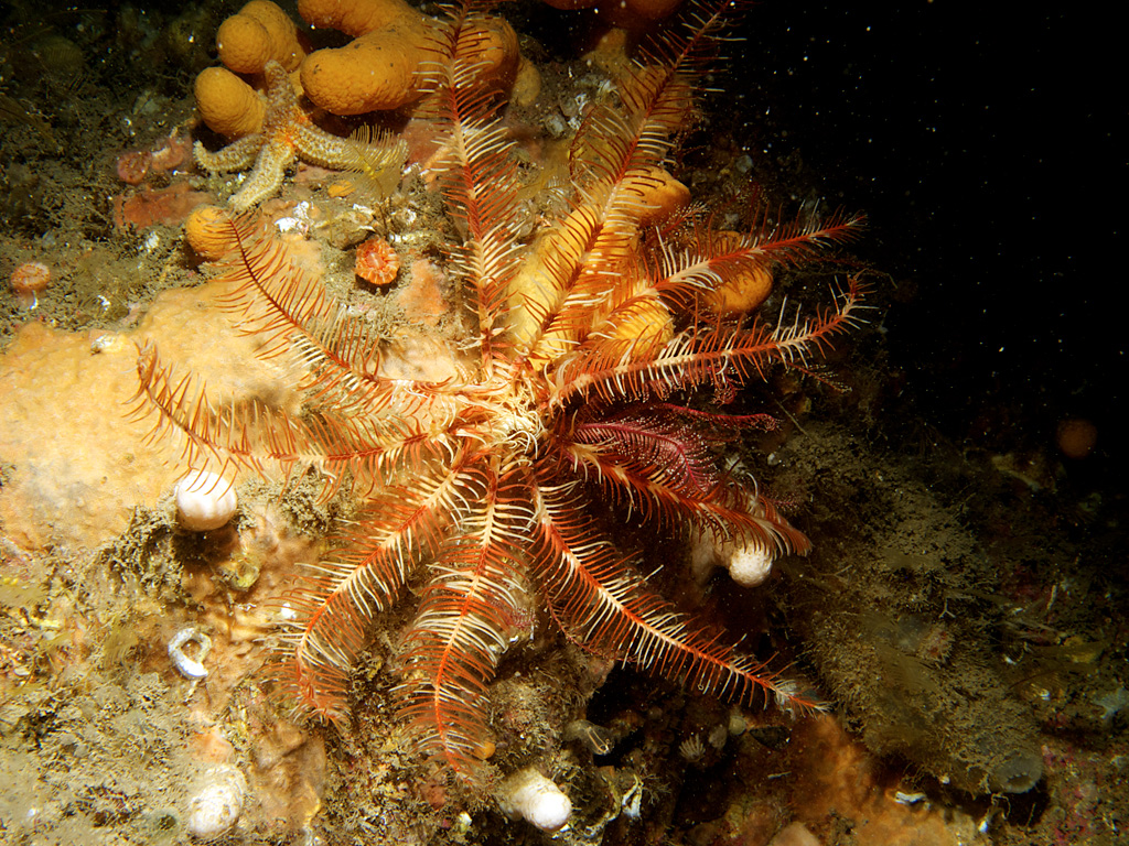 Antedon petasus, Garvellach Islands, W. Scotland.